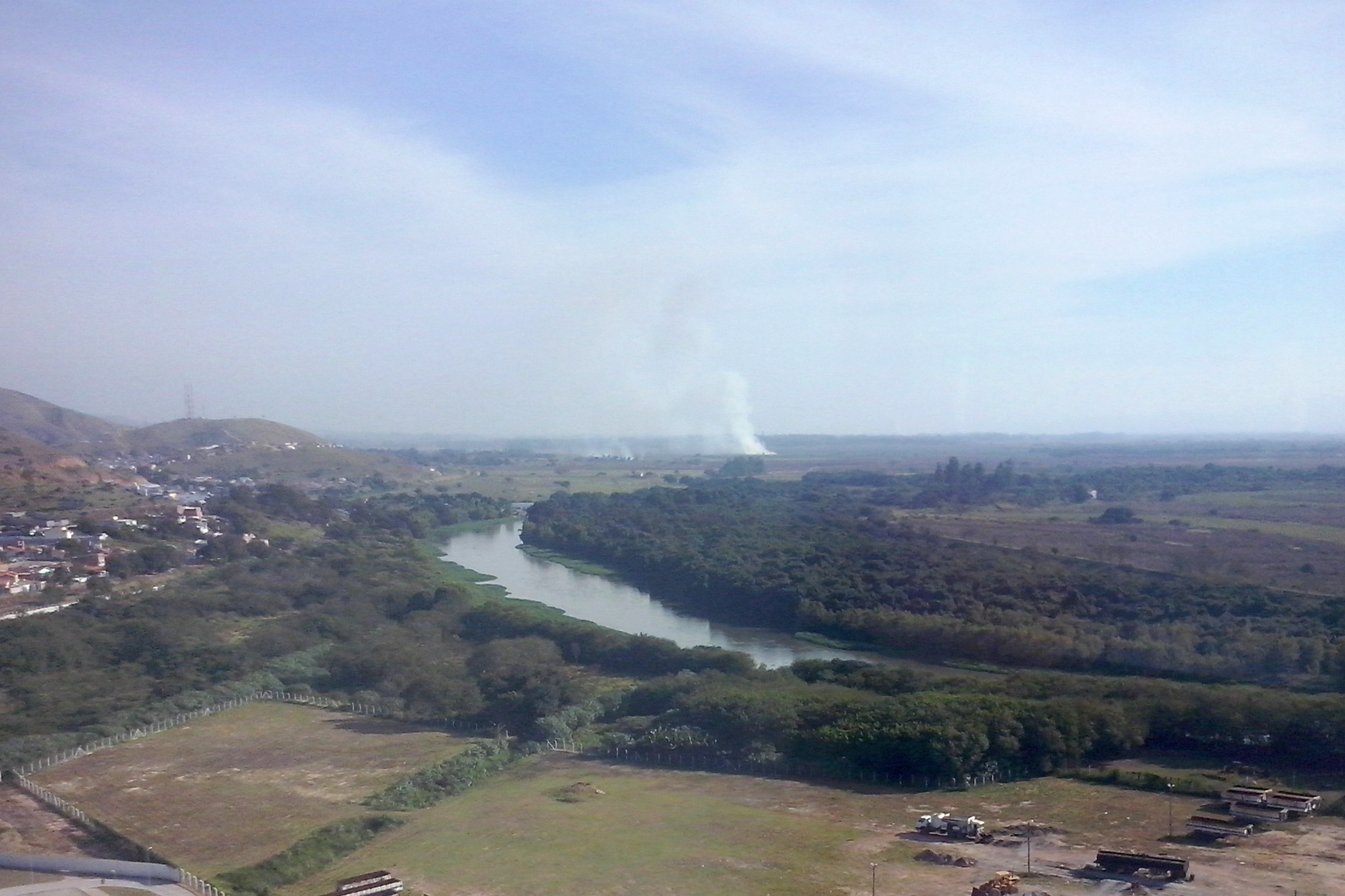 Paraíba do Sul River with wildfire in the background, in Aparecida, São Paulo, Brazil.